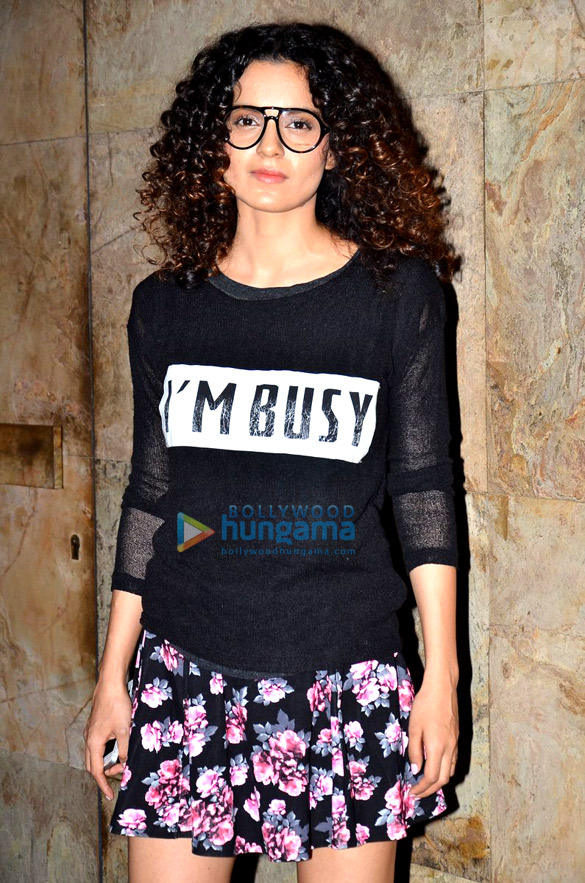 Kangana Ranaut at Femina Miss India 2011 contest